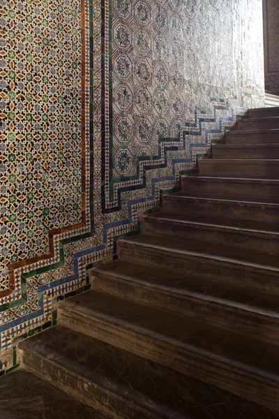 Ref: PM_101046_E_Sevilla.jpg; Sevilla; Casa de Pilatos; Andalucía, Sevilla; Spain; Europe/Spain/Sevilla; photo: Paul M.R.Maeyaert; © Paul M.R. Maeyaert